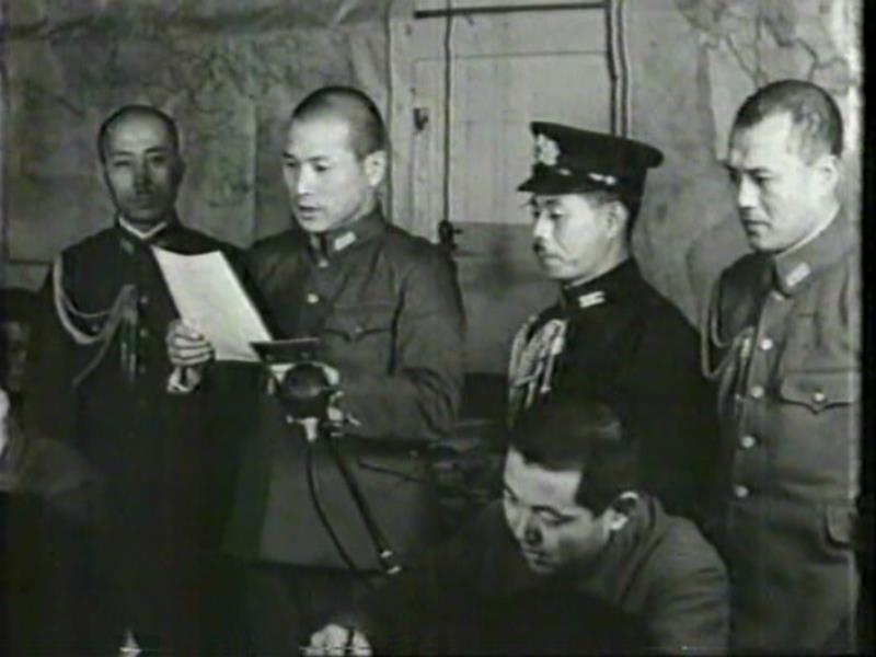 Announcement from Pearl Harbor Attack. According to Hideo Ohira (Officer of Imperial Japanese Army. Distant cousin of Masayoshi Ōhira).